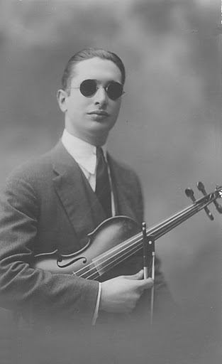 Mário Simões Dias, photographed in Paris in 1927